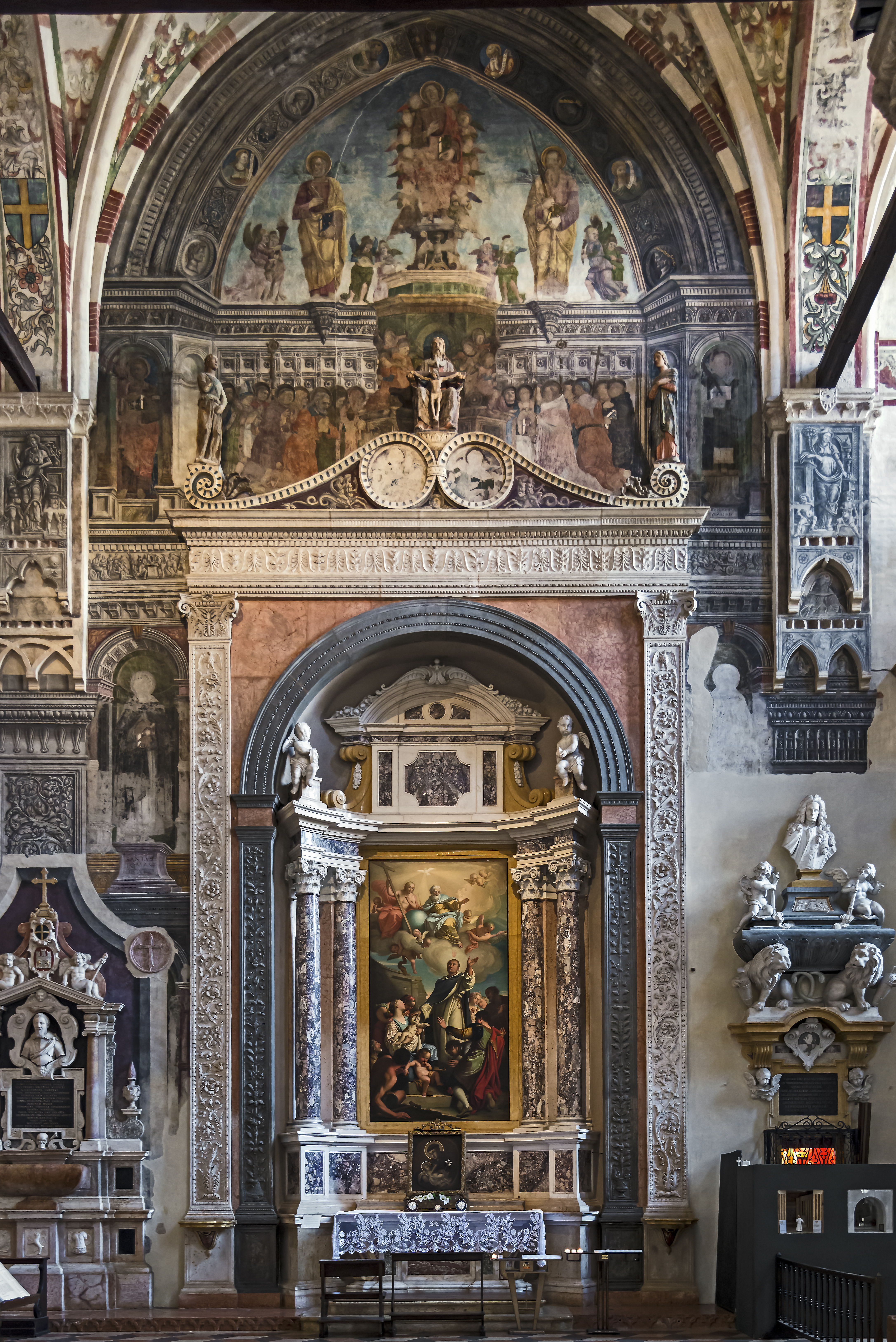 Basilica Santa Anastasia. Altar of St.Vincent Ferrer. The table of the altarpiece byPietro Antonio Rotari,while the marble sculptures are due to Pietro da Porlezza. The more ancient frescoes are by Liberale da Verona.